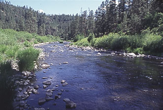 A stunning view of the Black River in Arizona